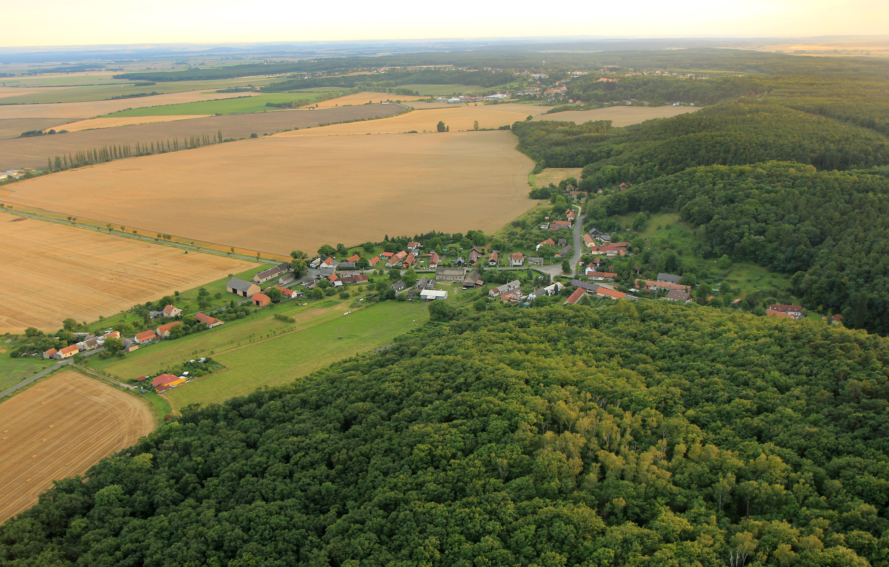 Aerial view of Studce, part of Loučeň, Czech Republic